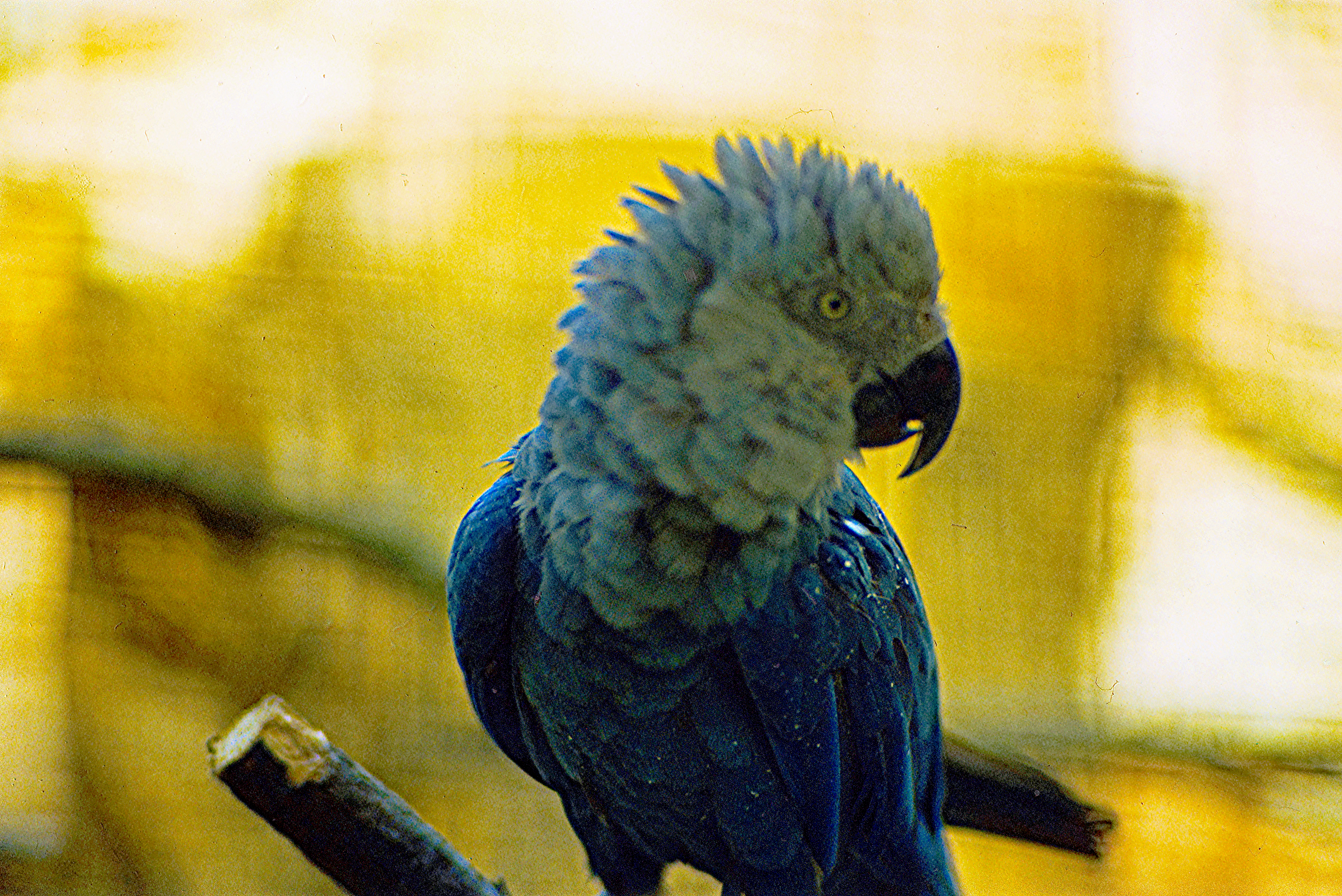 A Spix's Macaw in Vogelpark Walsrode, Walsrode, Germany in about 1980.